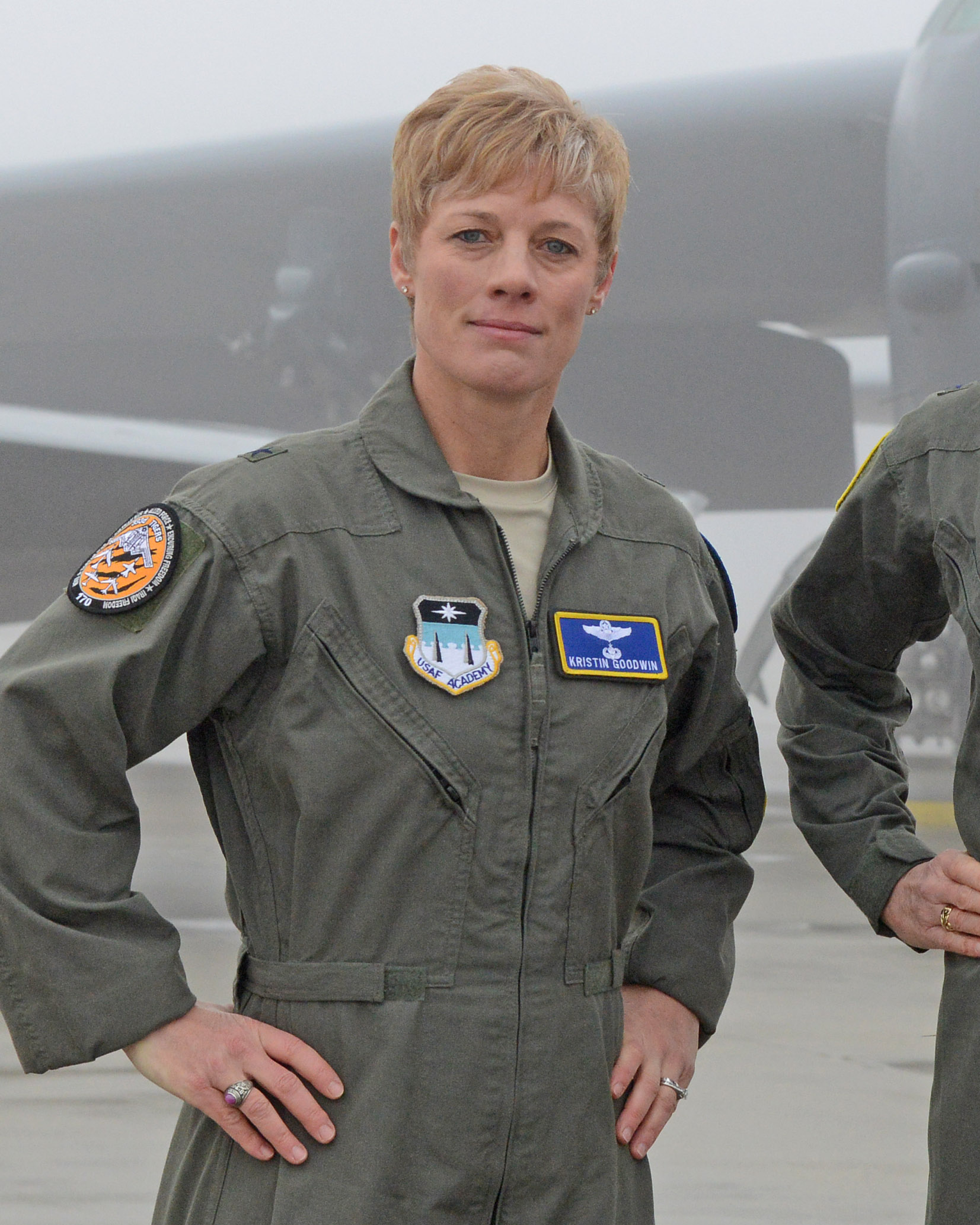 From left to right: Brig. Gen. Kristin Goodwin, Commandant of Cadets of the U.S. Air Force Academy, Maj. Gen. Dawn Dunlop, Director of Special Access Programs in the Office of the Secretary of Defense, and Brig. Gen. Jeannie Leavitt, Air Force Recruiting Service commander, pose for a photo at Edwards Air Force Base, California, Feb. 20, 2019. The generals were accompanied by more than 80 fellow female Airmen to take part in filming of an Air Force Recruiting Service television commercial.